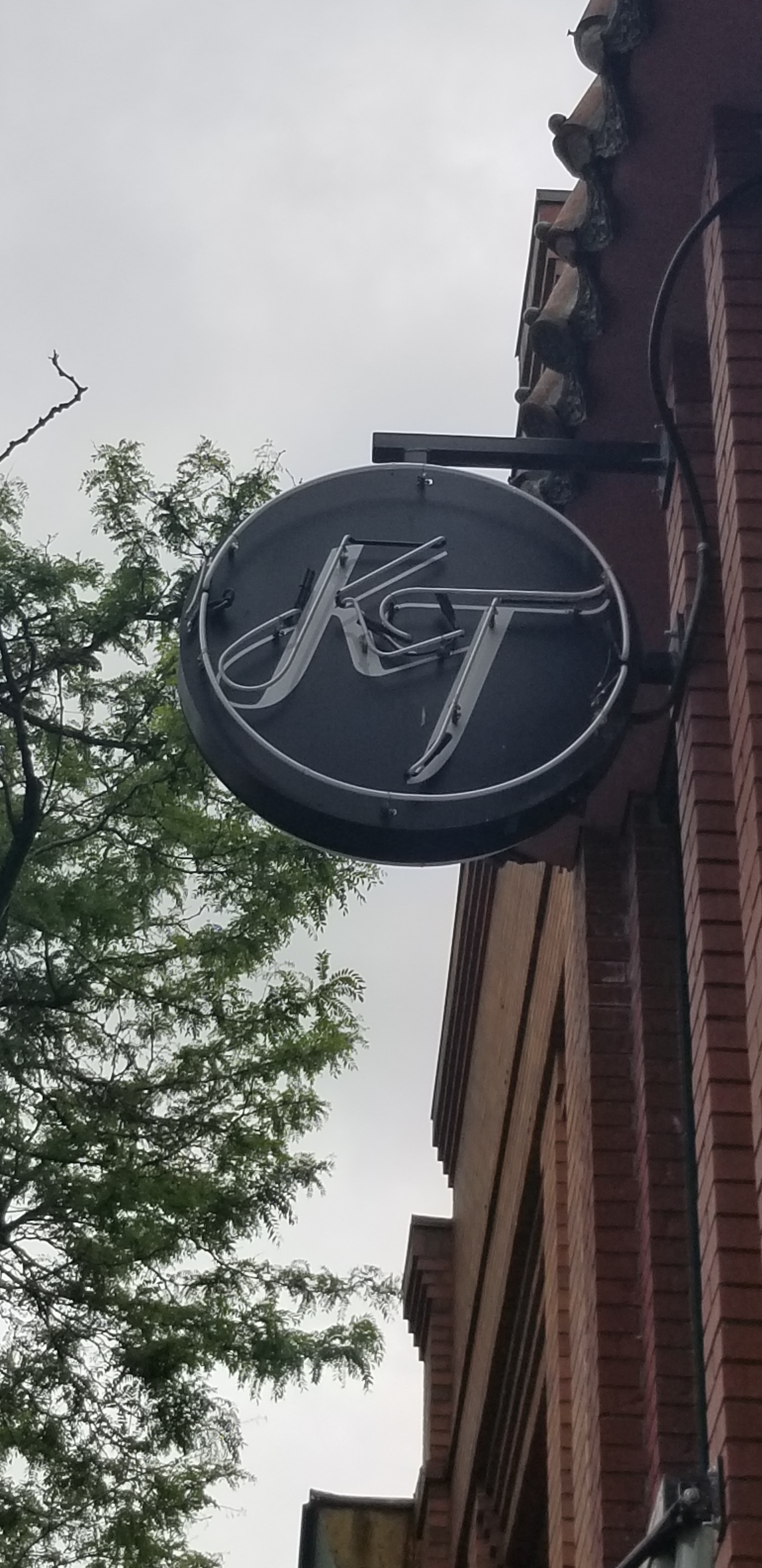 Unlit "KT" sign for Kissa Tanto restaurant in Vancouver